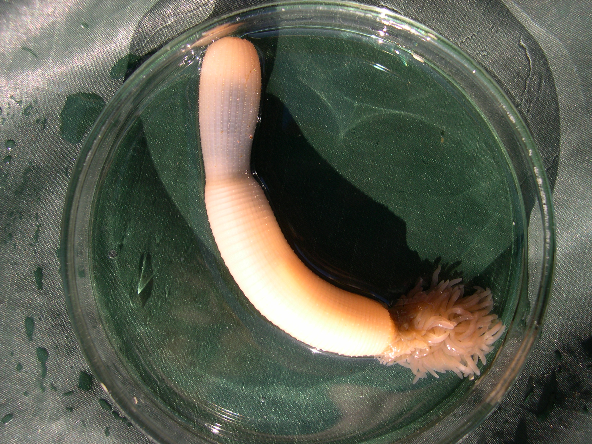 Priapulid worm Priapulus caudatus in a Petri dish. The specimen was found in the intertidal of the Russian coast of the Barents Sea.